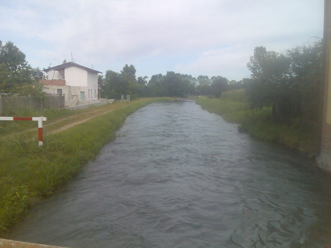 The Ciria Nuova canal near the village of Mirabello Ciria, where it begins.